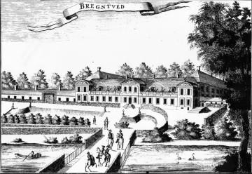 Eigtved's Bregentved without the tower.